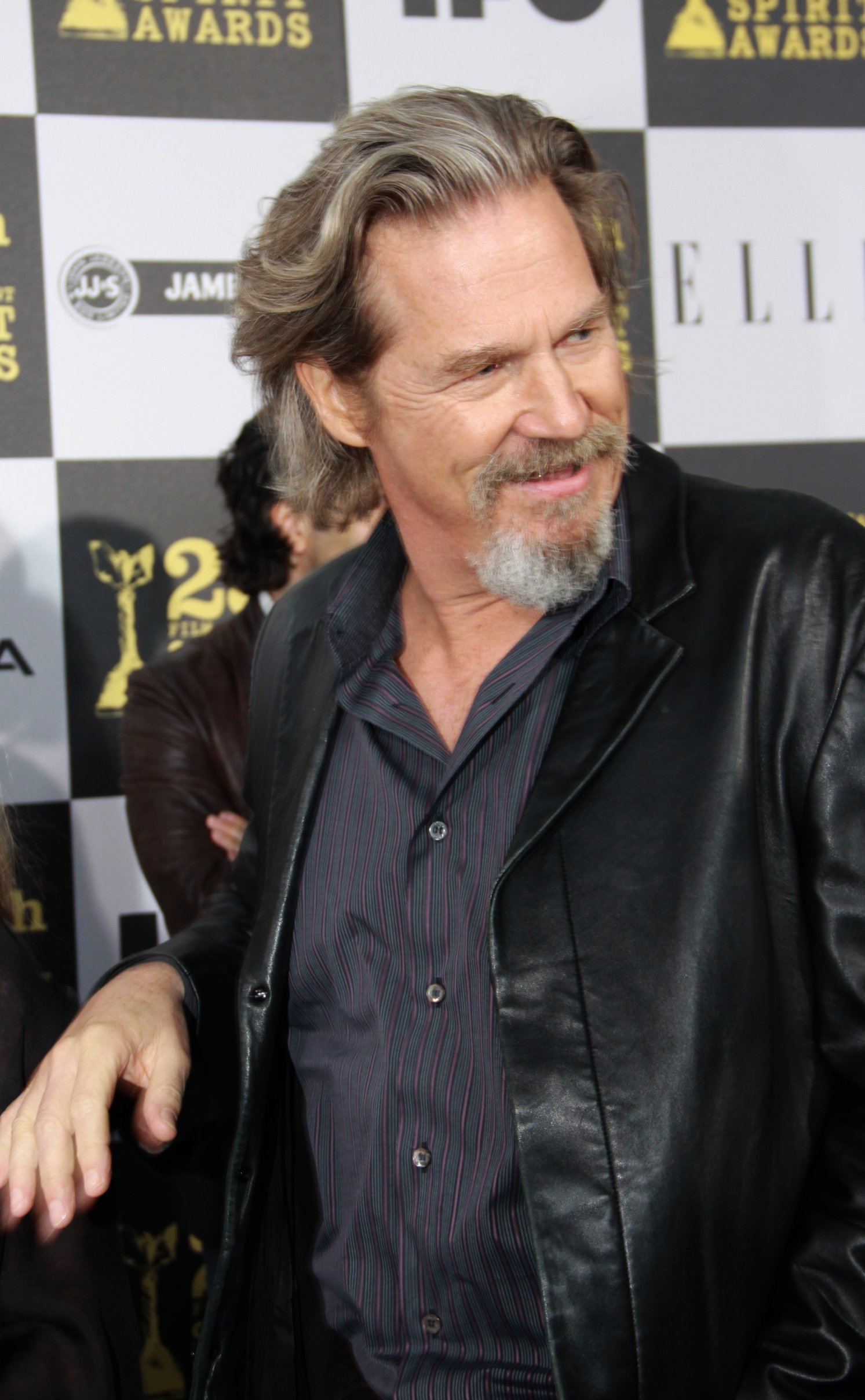 Jeff Bridges at the Independent Spirit Awards in Los Angeles on March 5, 2010.